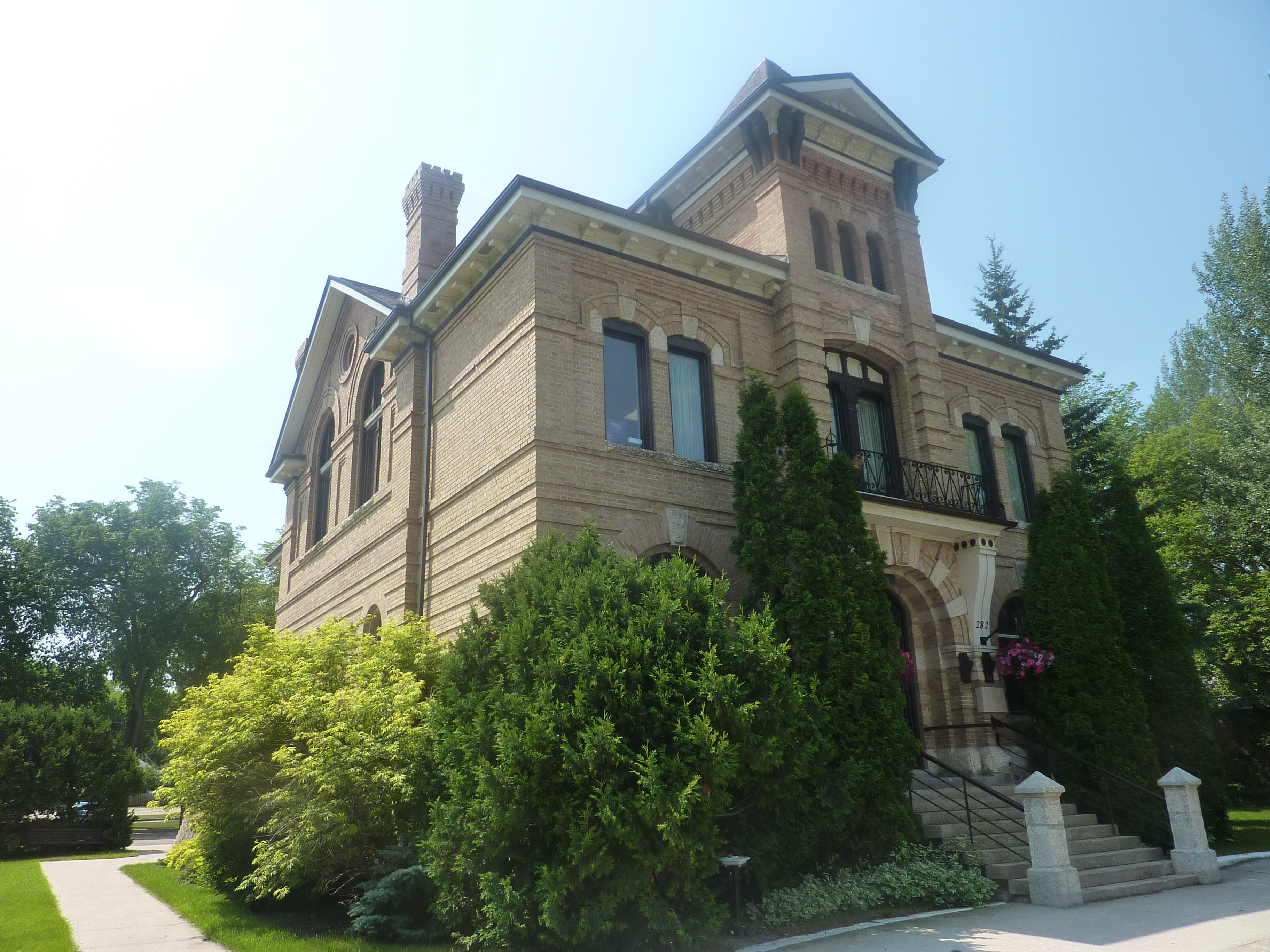 Neepawa Court House / Beautiful Plains County Court Building National Historic Site of Canada